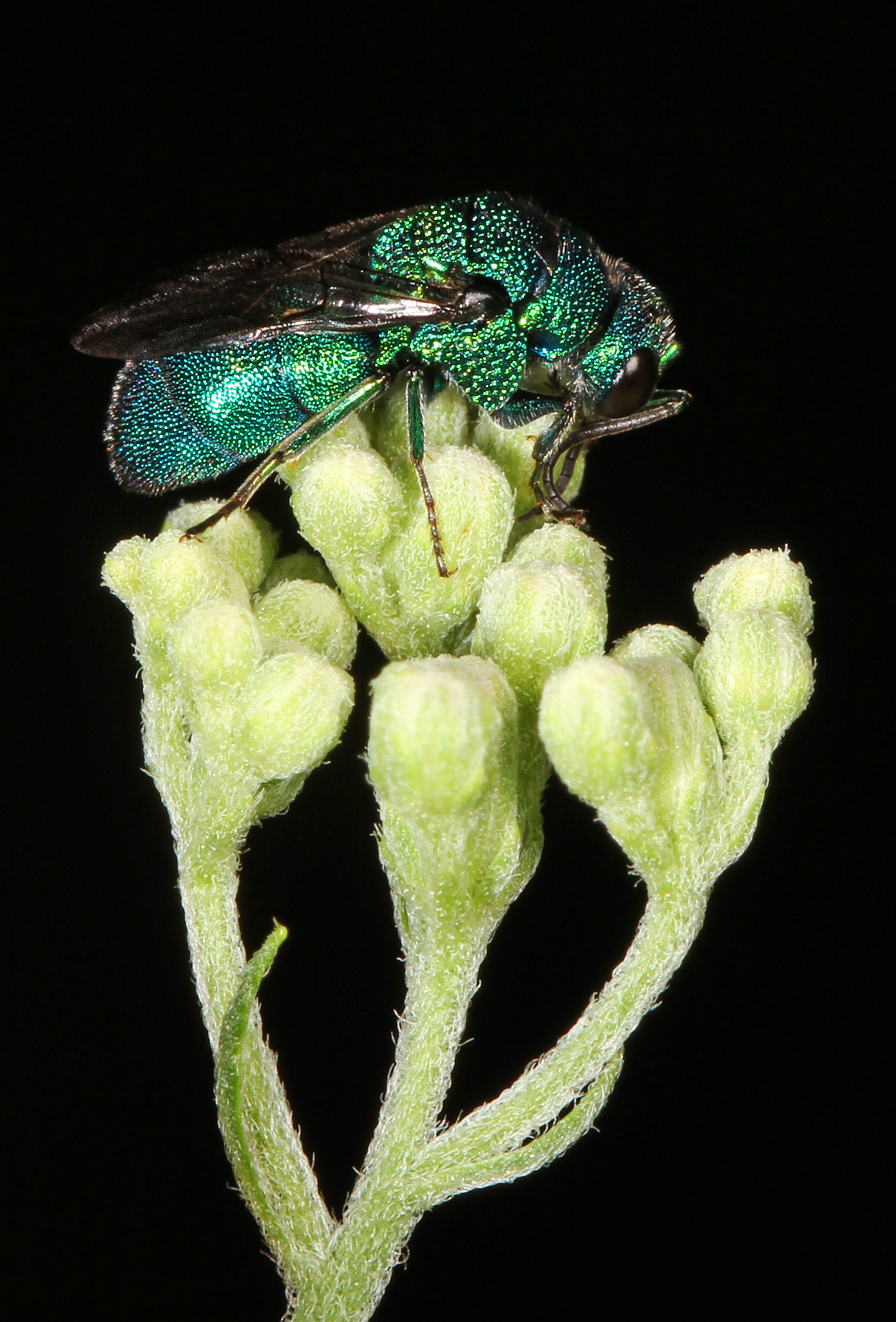 Day 220 - Cuckoo Wasp - Chrysis species, Julie Metz Wetlands, Woodbridge, Virginia